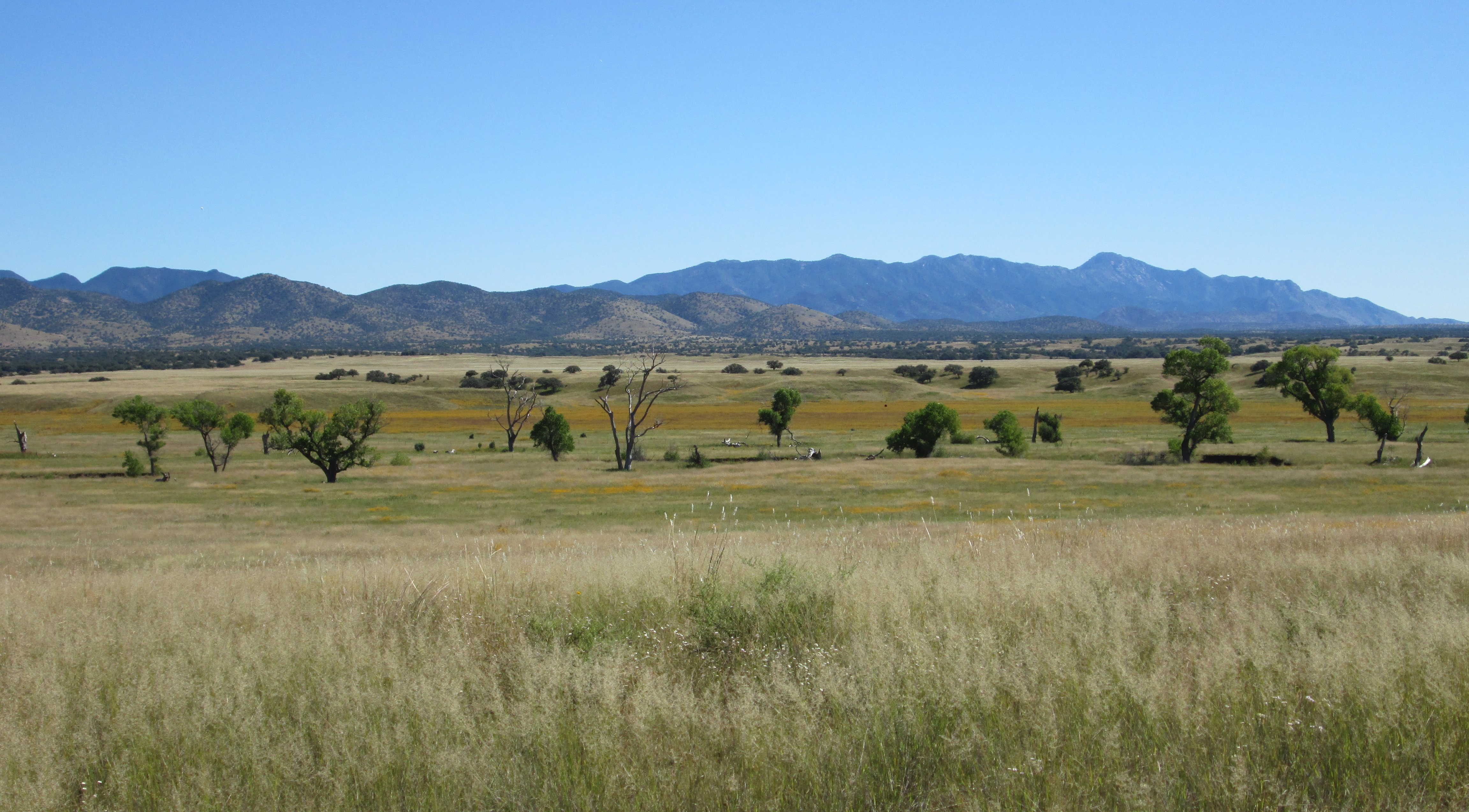 The San Rafael Valley in Cochise County, Arizona, facing east toward the Canelo Hills and Huachuca Mountains from San Rafael Ranch Road. The Santa Cruz River is marked by the line of trees in the center of the photo.